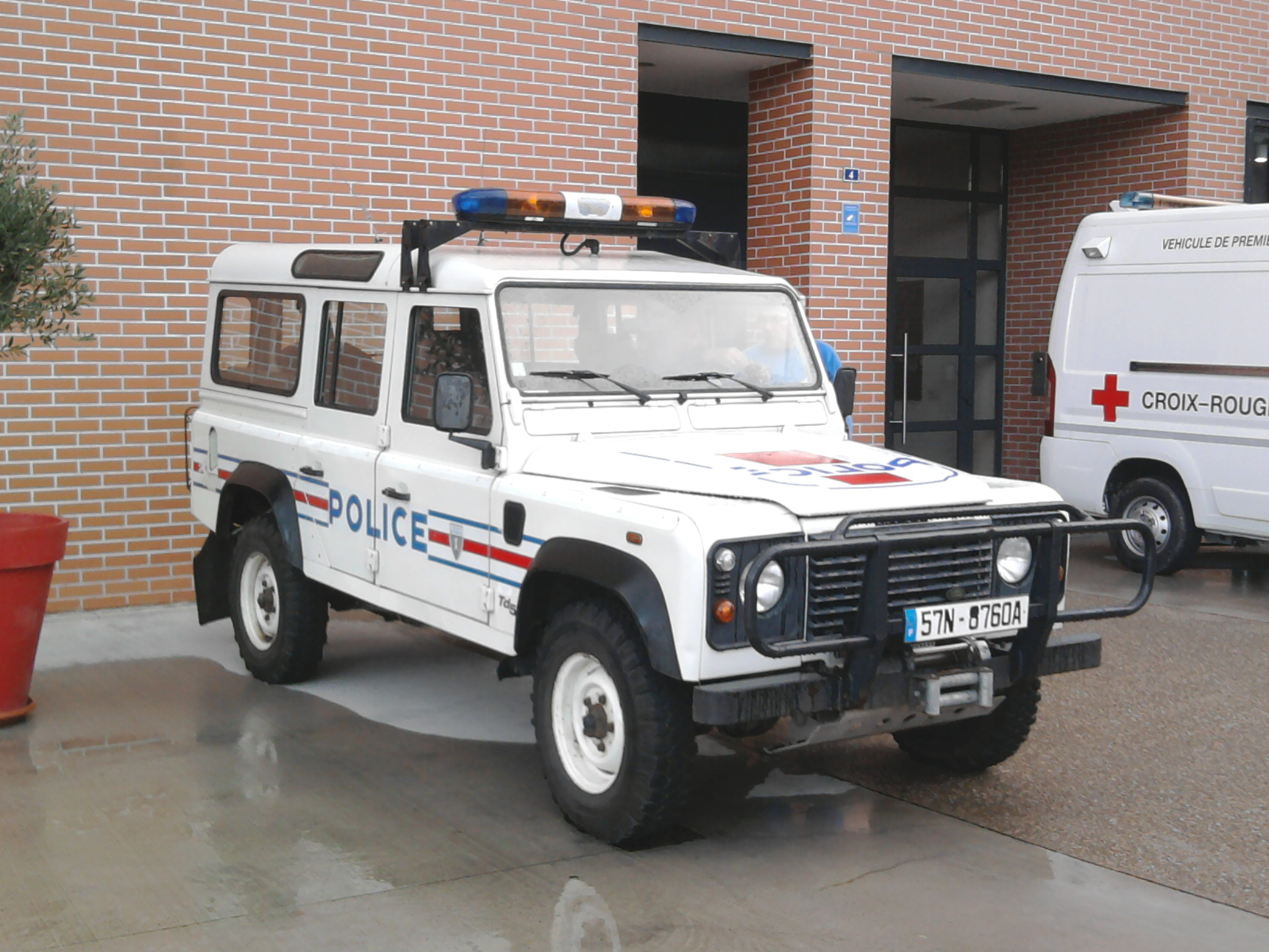 Land Rover police vehicle at Strasbourg, France. With "POLICE" in mirror writing ("ECILOP").